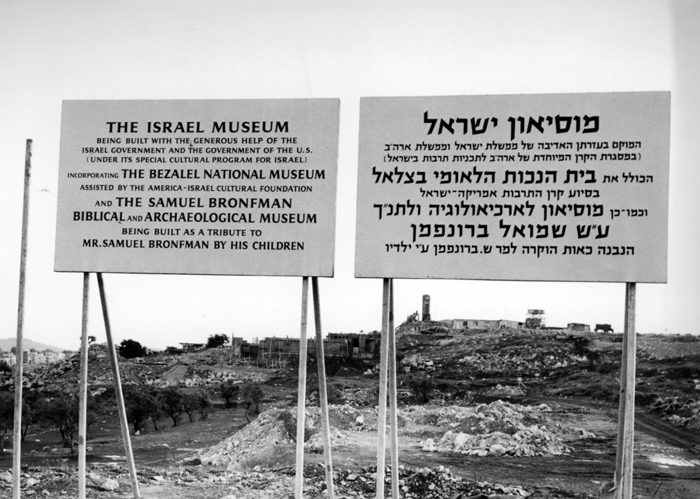 Photograph